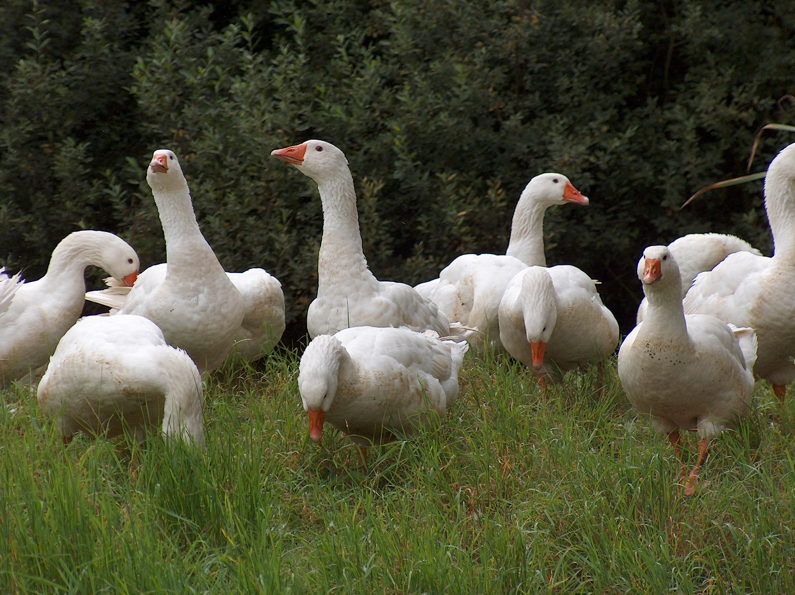 Geese